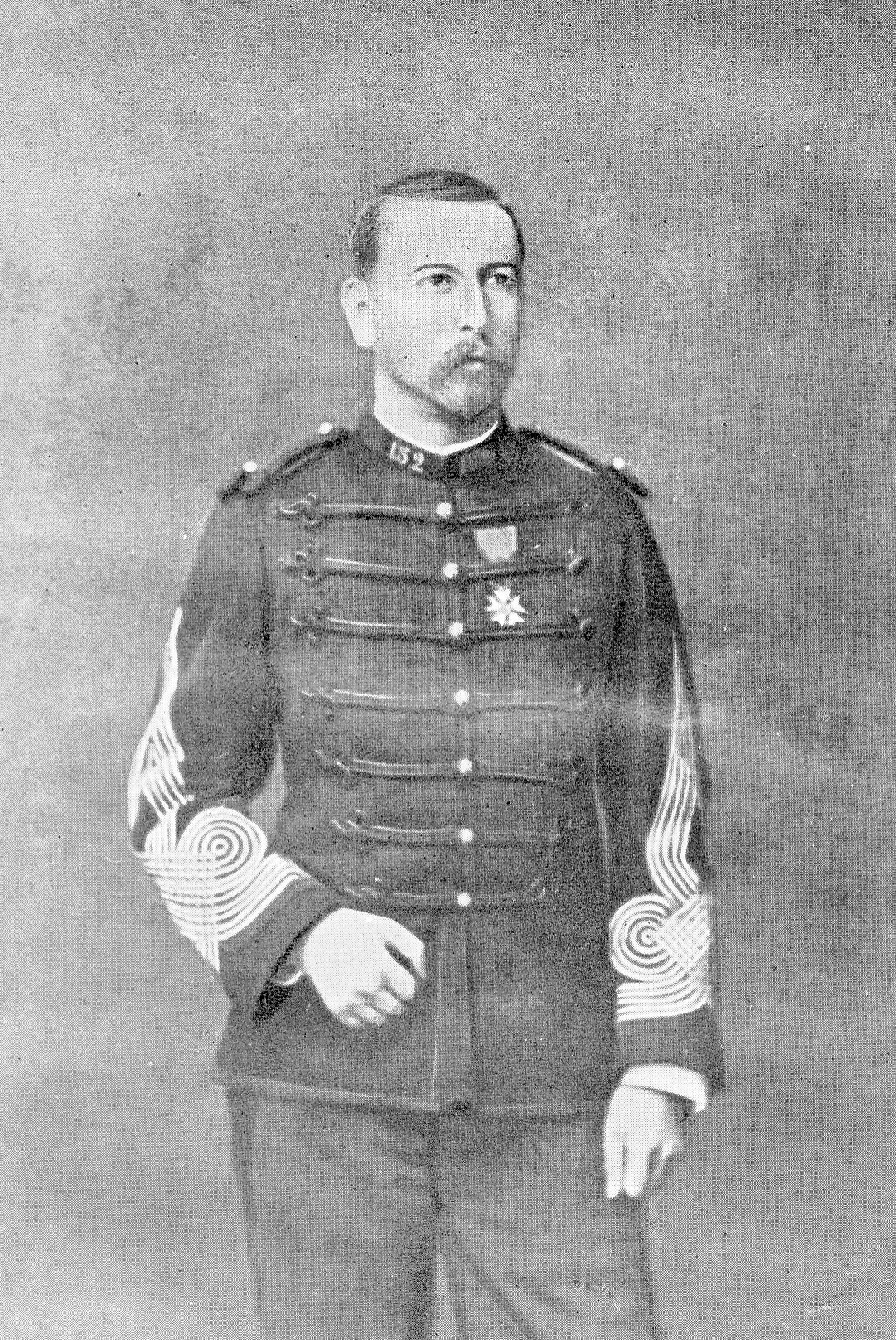 Photograph of chef de bataillon Marc-Edmond Dominé